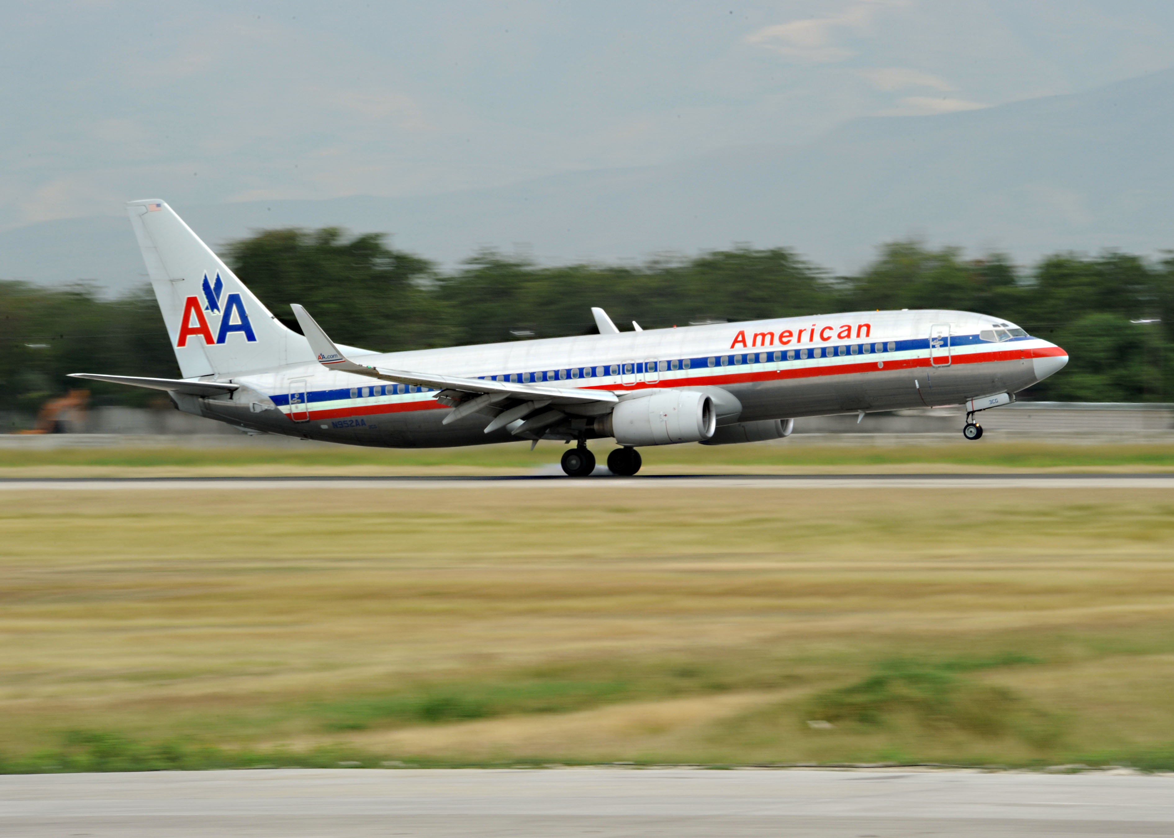 100219-N-5961C-001 An American Airlines aircraft arrives at Toussaint Louverture International Airport in Port-au-Prince, Haiti, Feb. 19, 2010. The flight, from Miami, was the first commercial airline flight since a 7.0 magnitude earthquake caused severe damage in and around Port-au-Prince Jan. 12th. (U.S. Navy photo by Senior Chief Mass Communication Specialist Spike Call/Released)